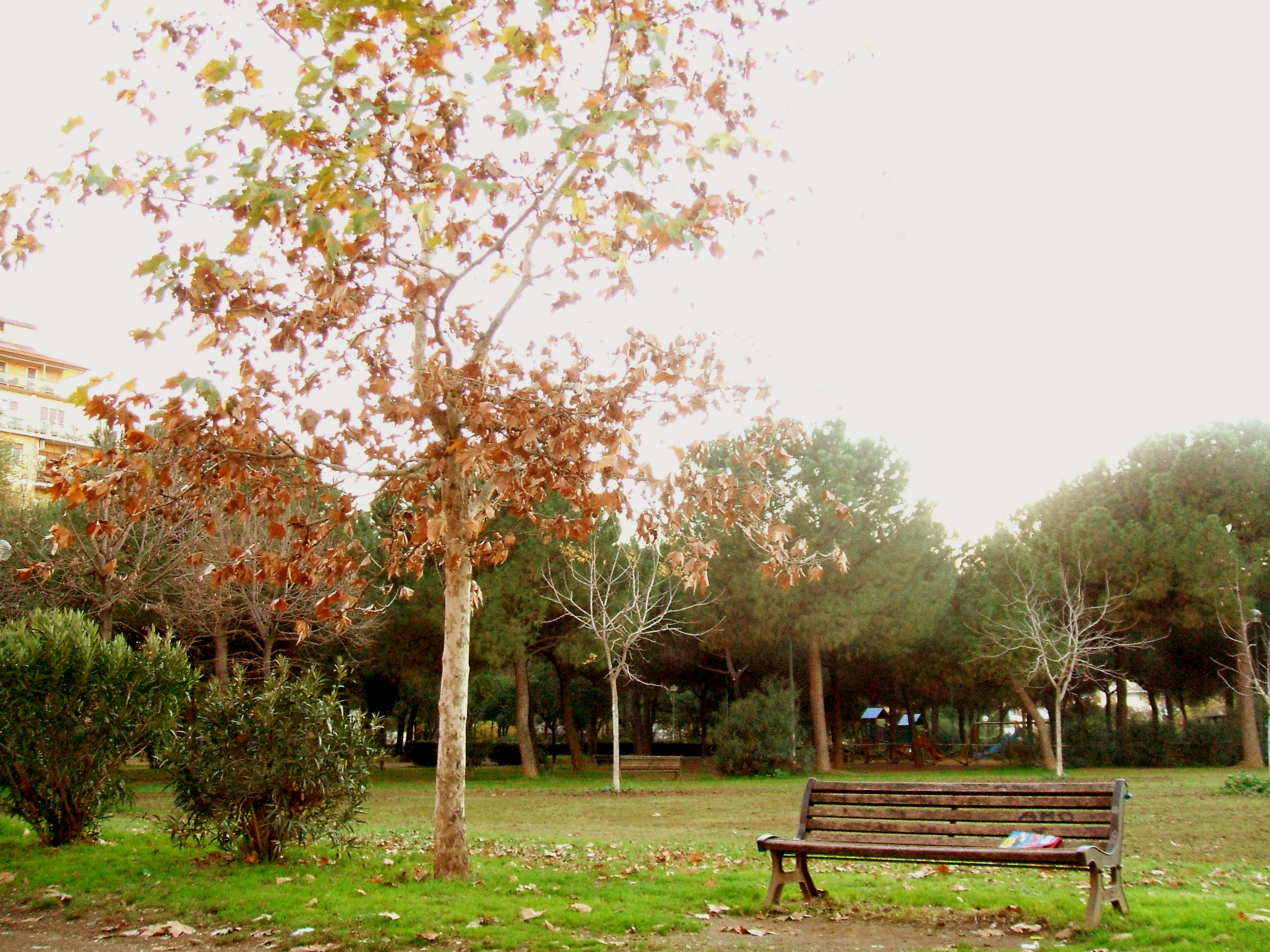 A view of Villa Gordiani, a park of Rome.